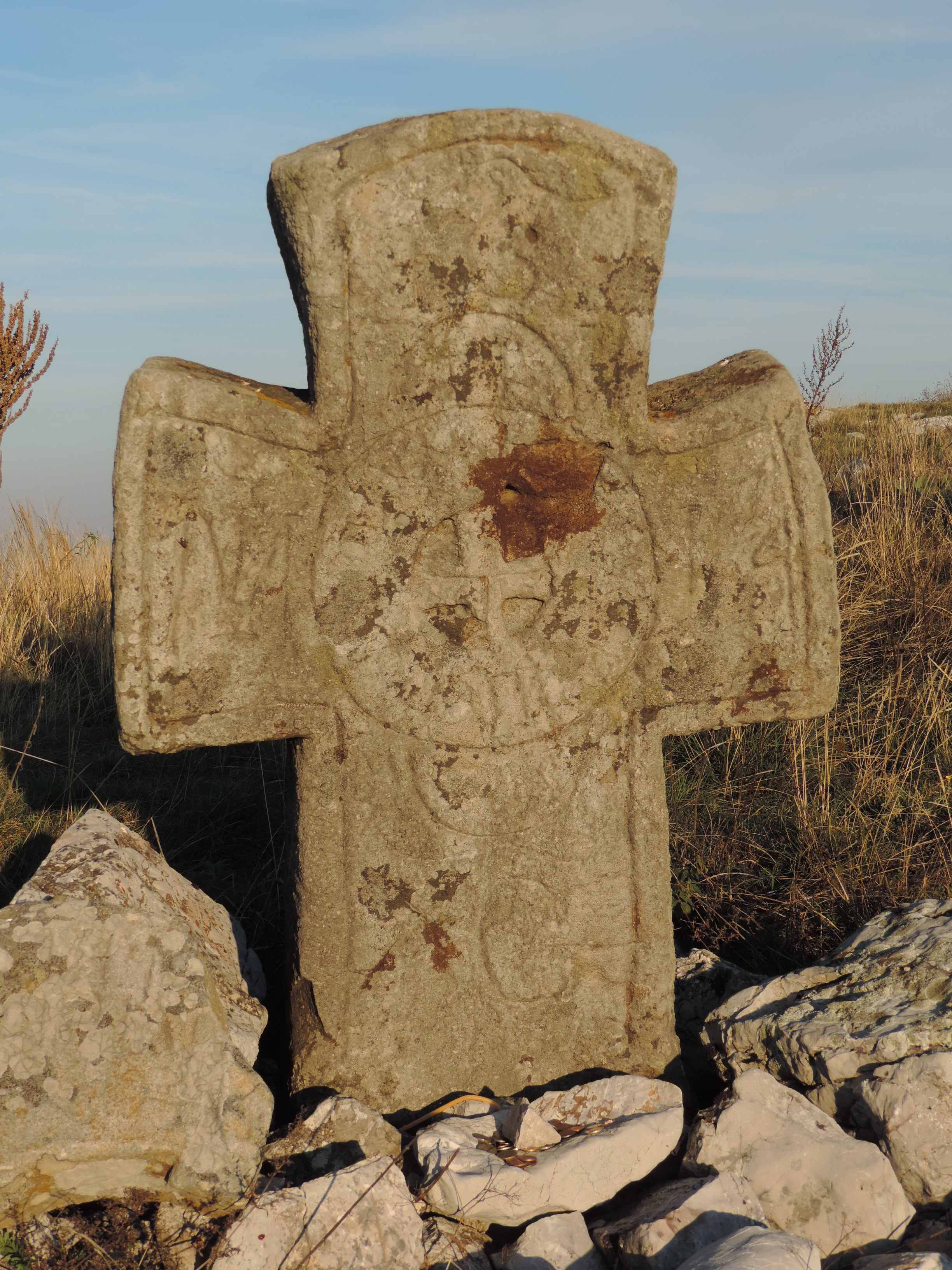 The cross on the Petrov Peak of Chepan mountain, Bulgaria, next to the ruins of the Dragoman Monastery